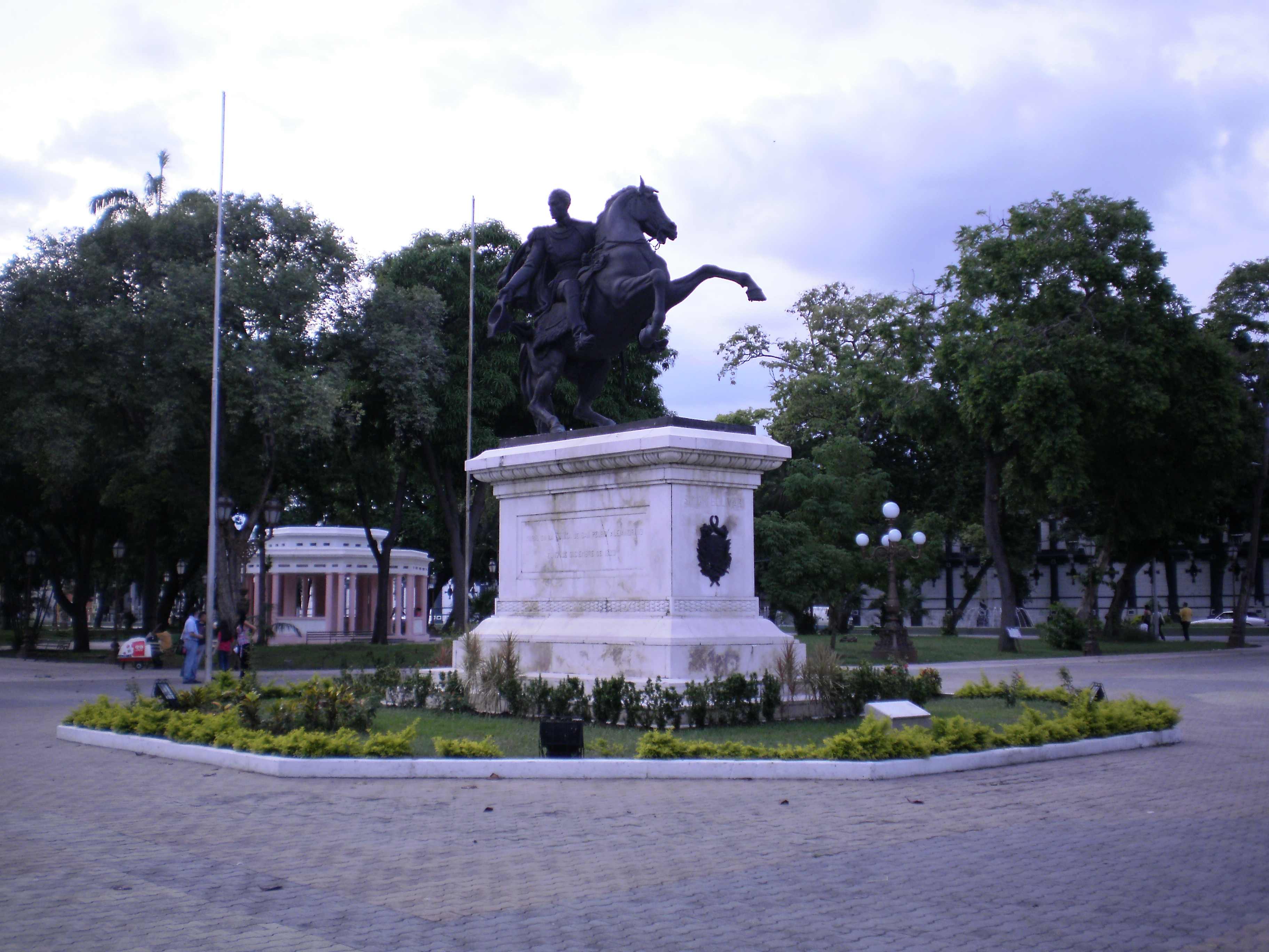 Equestrian statue of the Liberator.